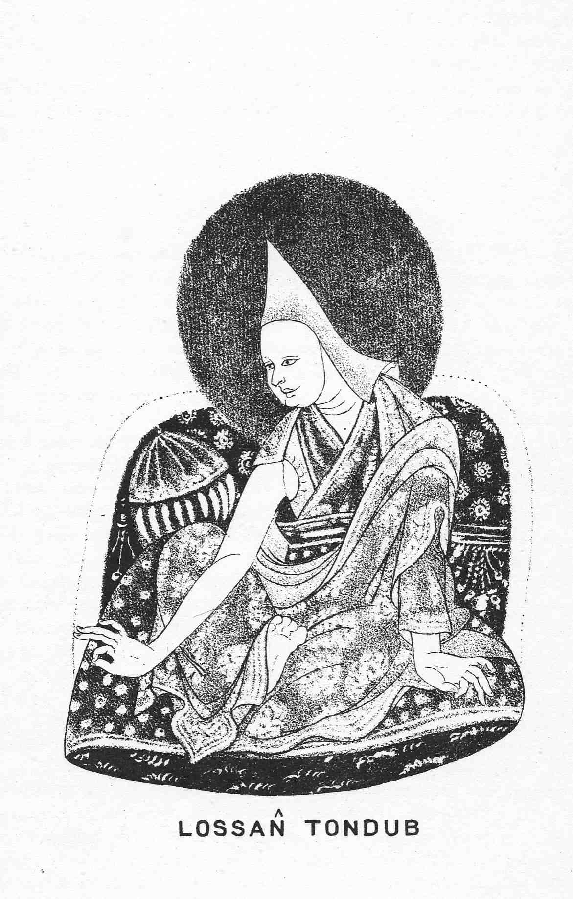 Image taken from a publication by Sarat Chandra Das (1849-1917), "Contributions on Tibet", in the Journal of the Asiatic Society of Bengal Vol. LI (1882), so it is in the public domain. John Hill 04:20, 24 September 2007 (UTC)